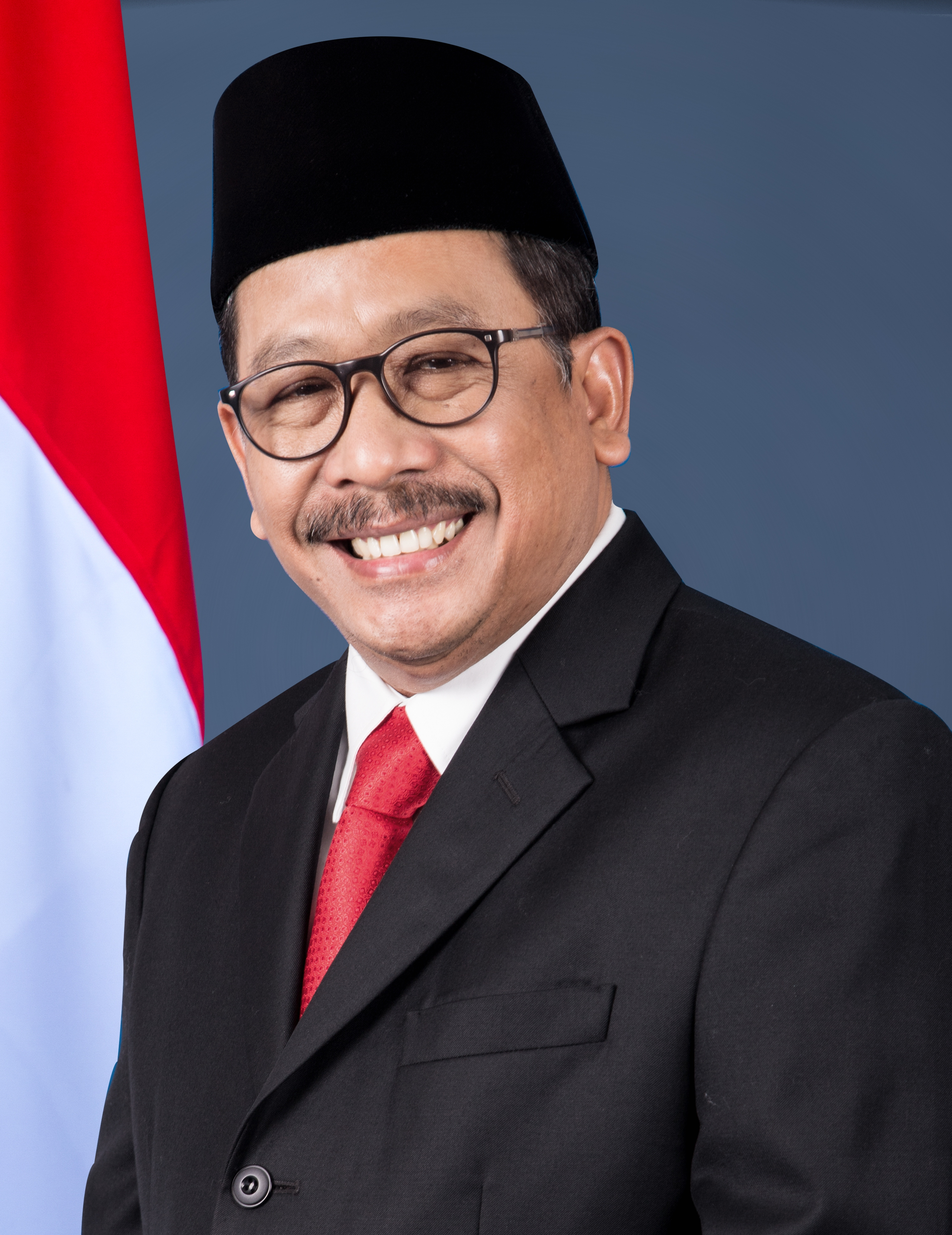 Official portrait of Drs. H. Zainut Tauhid Sa'adi as the Vice Minister of Religious Affairs of the Republic of Indonesia for 2019-2024 period